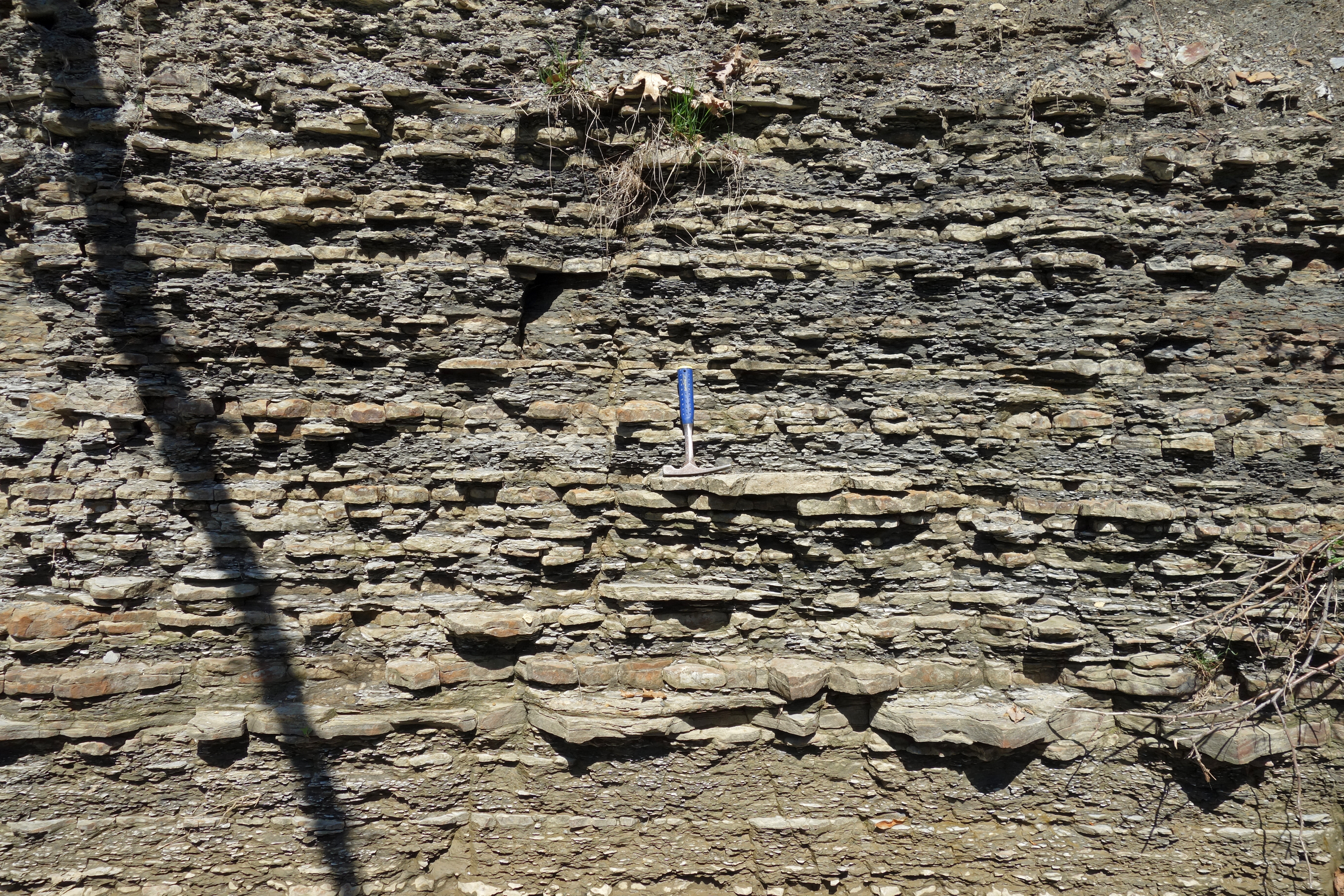 (photo by James Cheshire) The Cuyahoga Formation is a marine, mixed-siliciclastics succession in the Lower Mississippian of eastern Ohio. Many members and submembers have been named, based on whether the dominant lithology is shale or sandstone. At the river cut shown here, gray shale is interbedded with siltstones and finer-grained sandstones. This is the Raccoon Shale Member, named after Raccoon Creek, which runs from Alexandria to Granville to Newark, Ohio. Stratigraphy: Raccoon Shale Member, Cuyahoga Formation, Kinderhookian Stage, lower Lower Mississippian Locality: outcrop along the South Fork of the Licking River, Licking County, east-central Ohio, USA